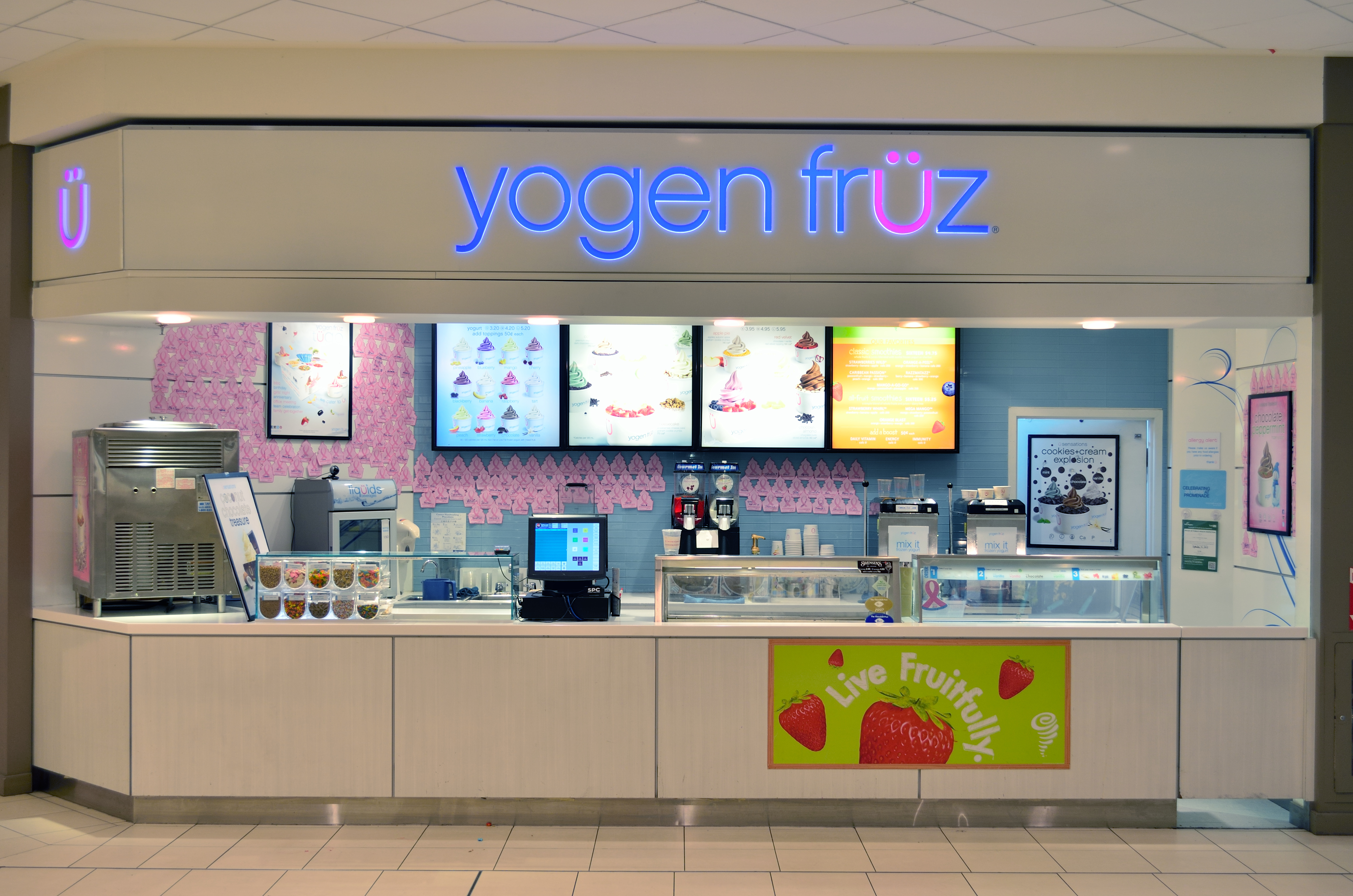 Yogen fruz at Promenade